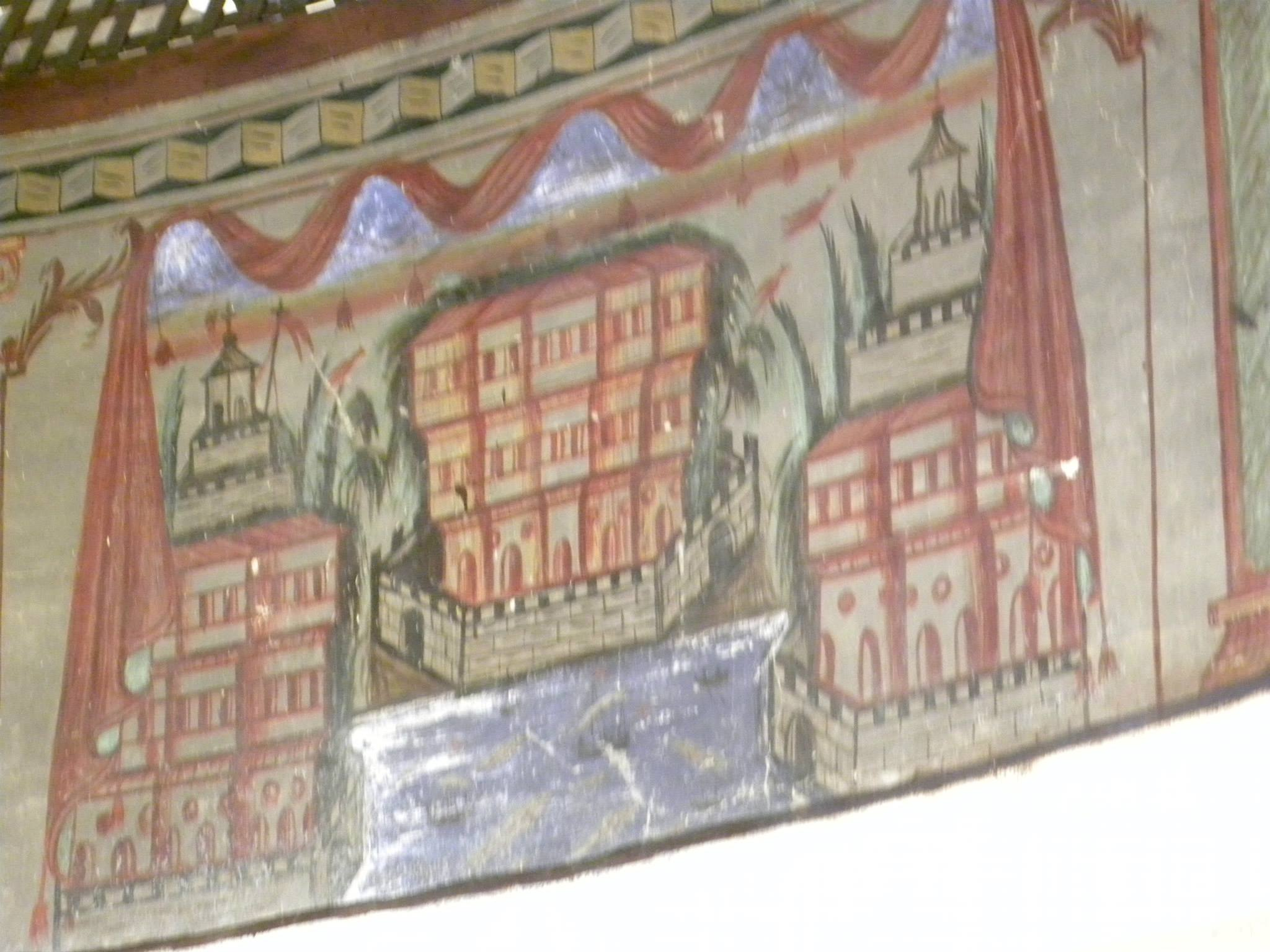 Fresco in the St. Nicholas Church in Mečkuevci, Macedonia